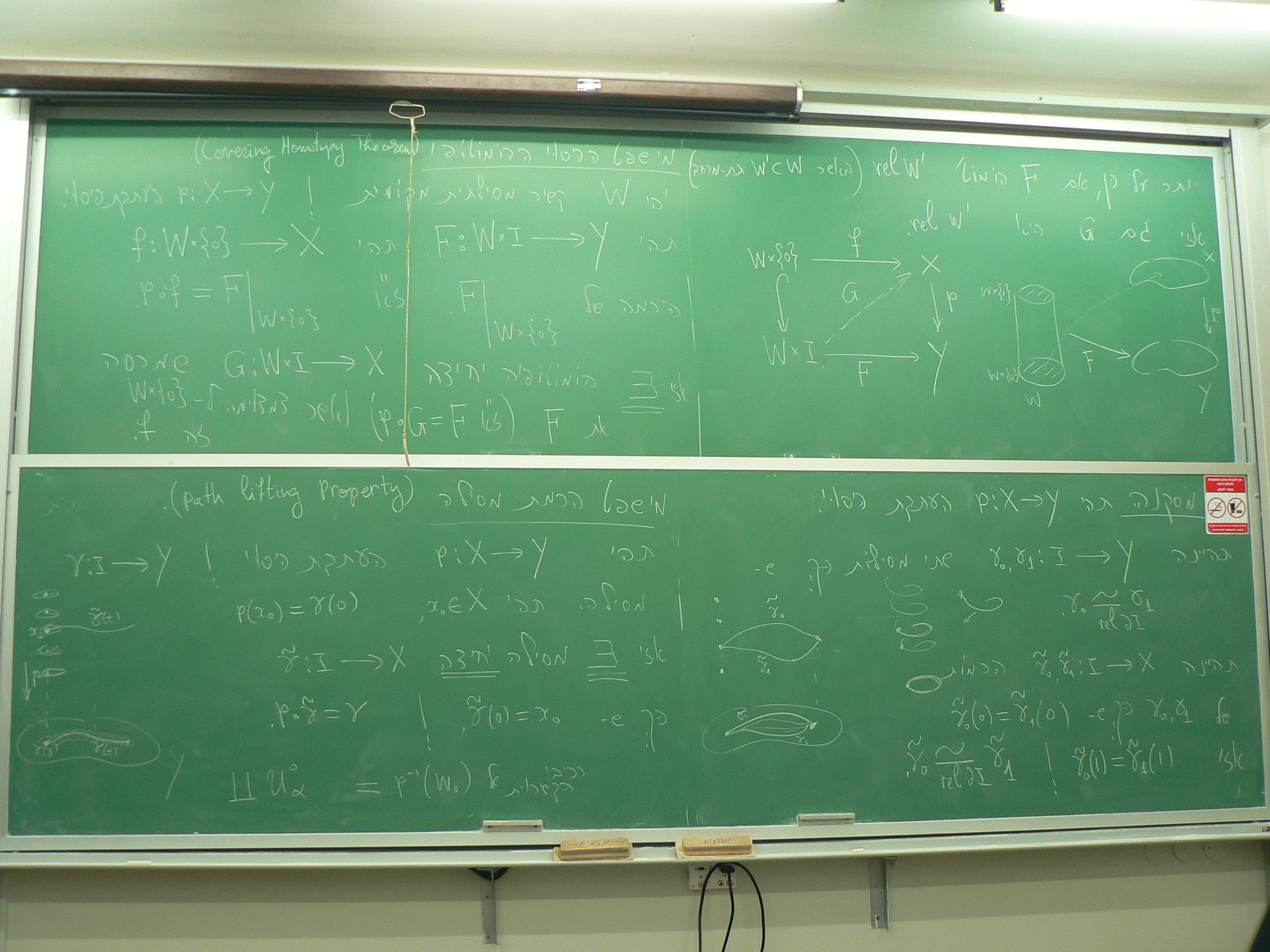 Mathematics Blackboard in Tel Aviv University, Israel, showing lecture in algebraic topology.